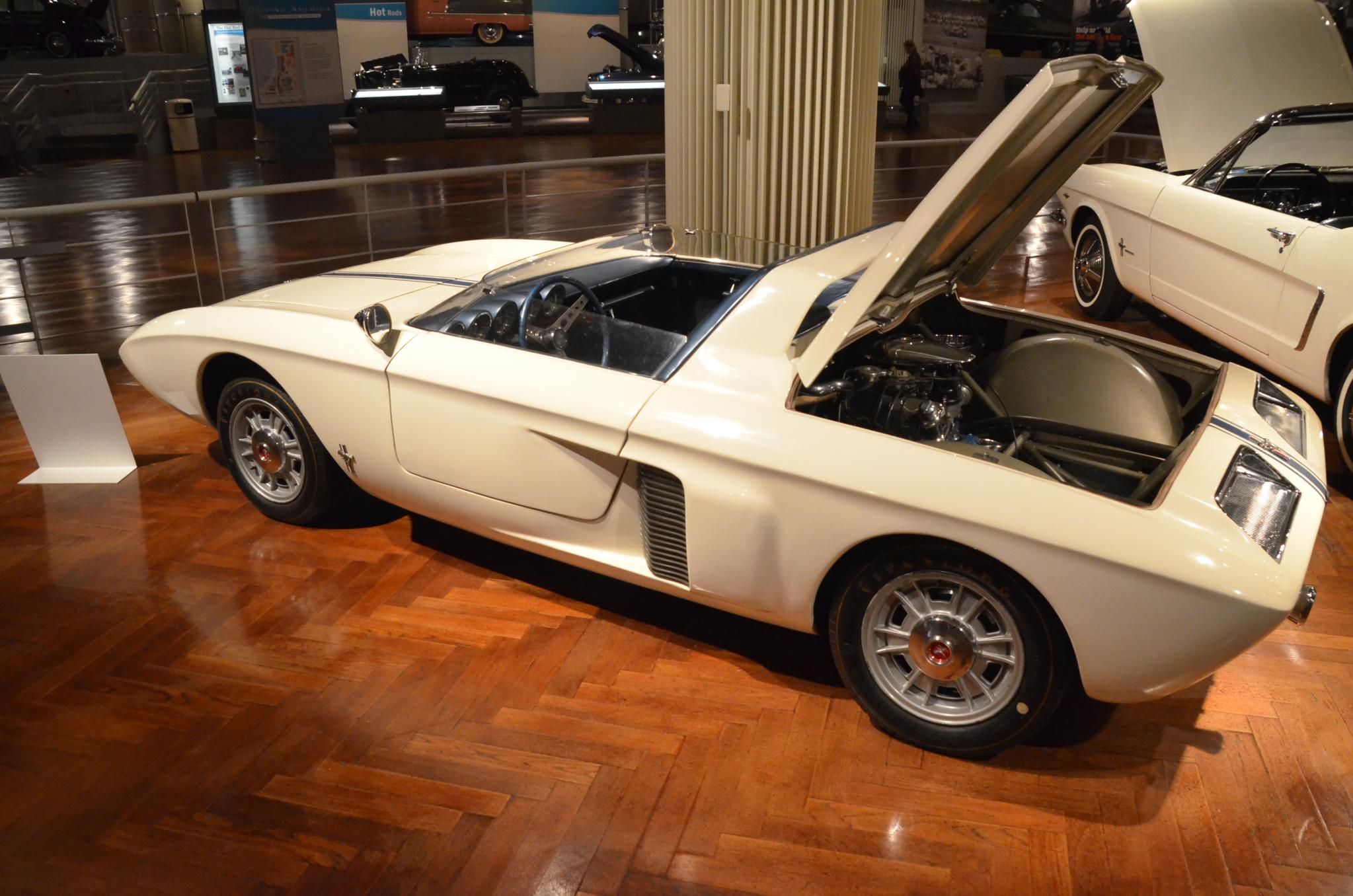 For about 6 weeks in January and February, the Henry Ford museum in Dearborn, Michigan opens the hoods on about 50 of it's iconic vehicles. Here is a photo of one of the vehicles on display.